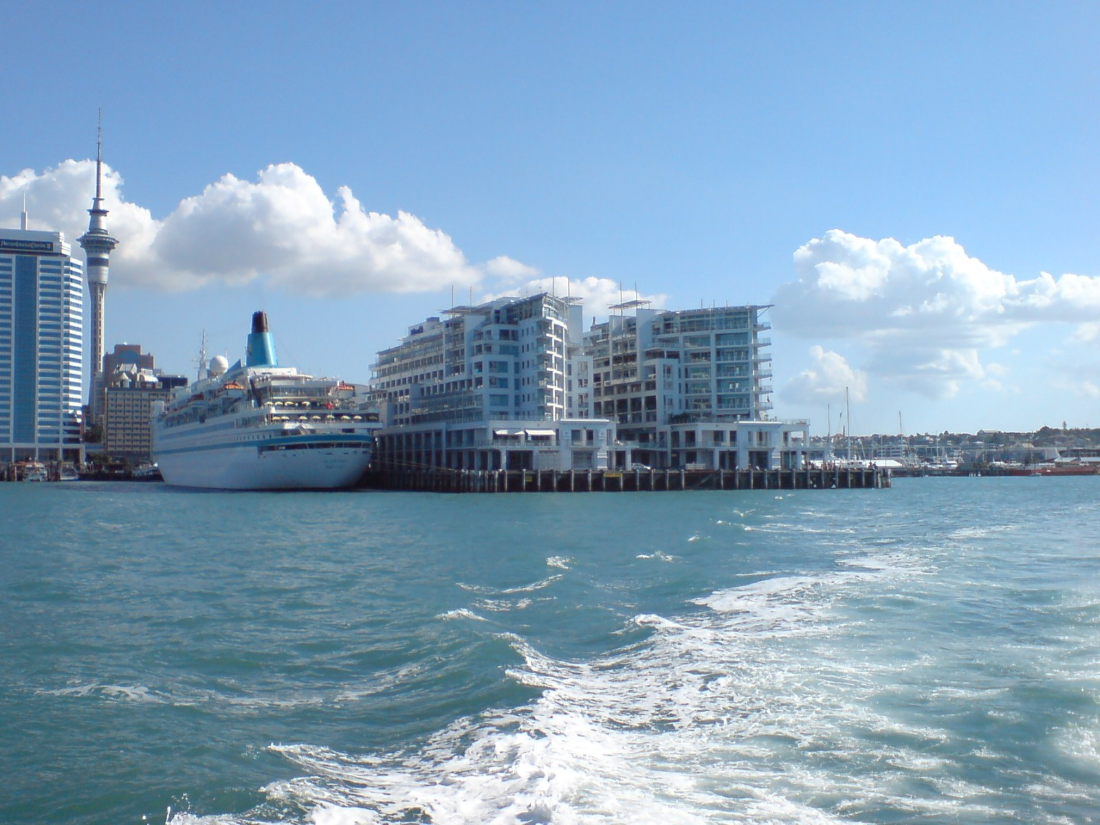 Phoenix Reisen cruise ship Albatros (possibly) at the Ports of Auckland Overseas Passenger Terminal, Princes Wharf, in Auckland City, New Zealand.